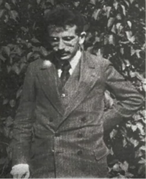 Walter Benjamin in Bern (Switzerland), photoportrait.